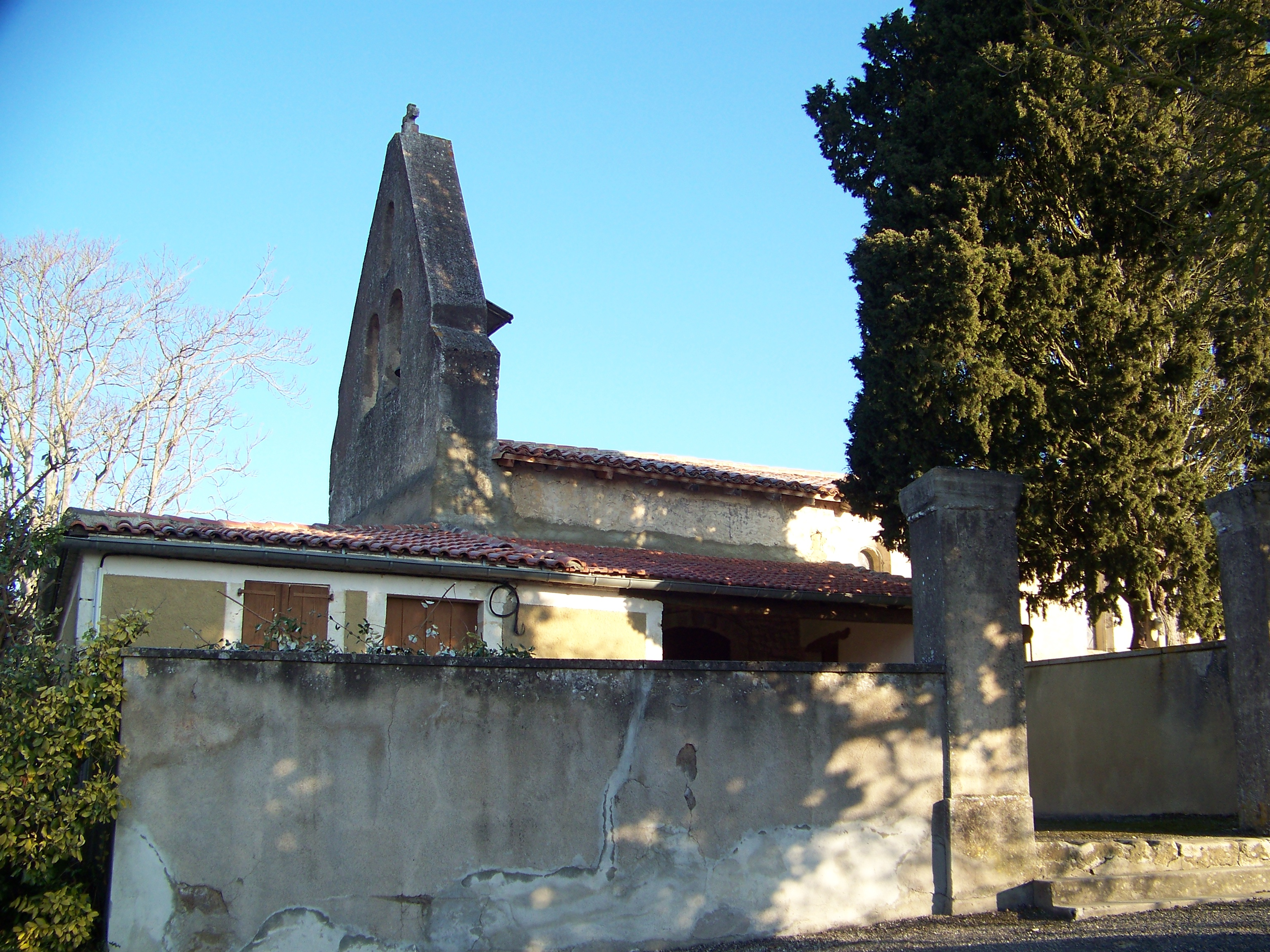 Leboulin chapel (Gers, France)